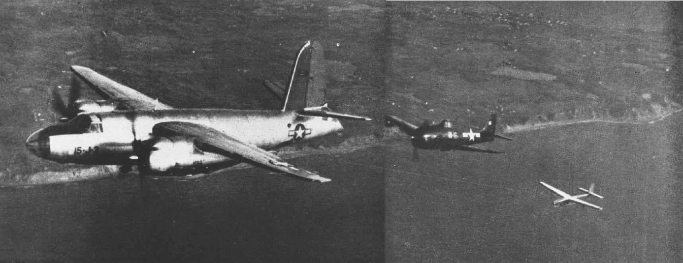 A U.S. Navy Martin JM-1 Marauder of squadron VJ-2 towing a target sleeve with a Grumman F6F-5N Hellcat night fighter tagging along. 272 JM-1s were used by the U.S. Navy, being converted B-26C bombers. A few were converted to JM-1P reconnaissance planes.